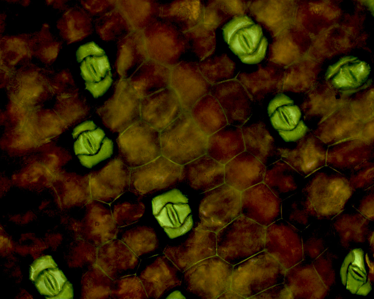 Tradescantia zebrina leaf viewed under microscope, the red epidermis contrasts with the underlying green tissue and allows for easy location and identification of the stomata.